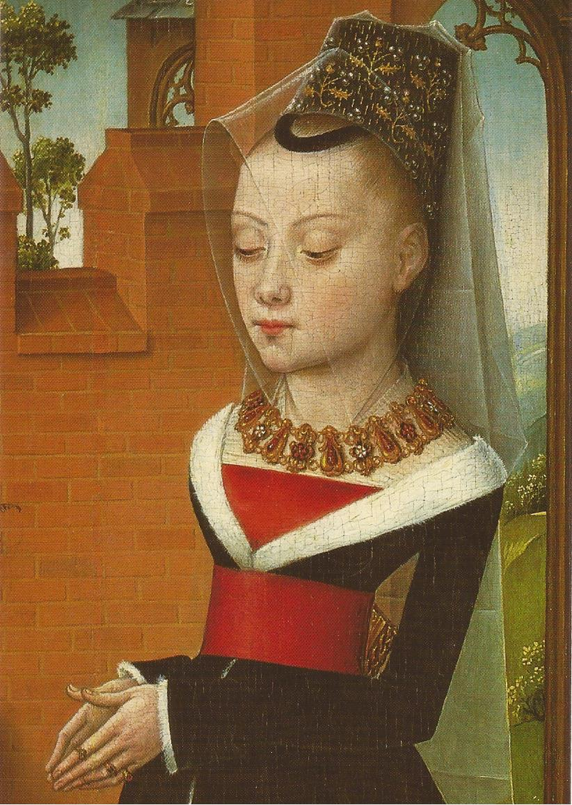 Maria de Hoose, the Bruges patrician, on the leaf of the triptych of Jan de Witte (1473) in the Musée Royale des Beaux-Arts, Brussels.